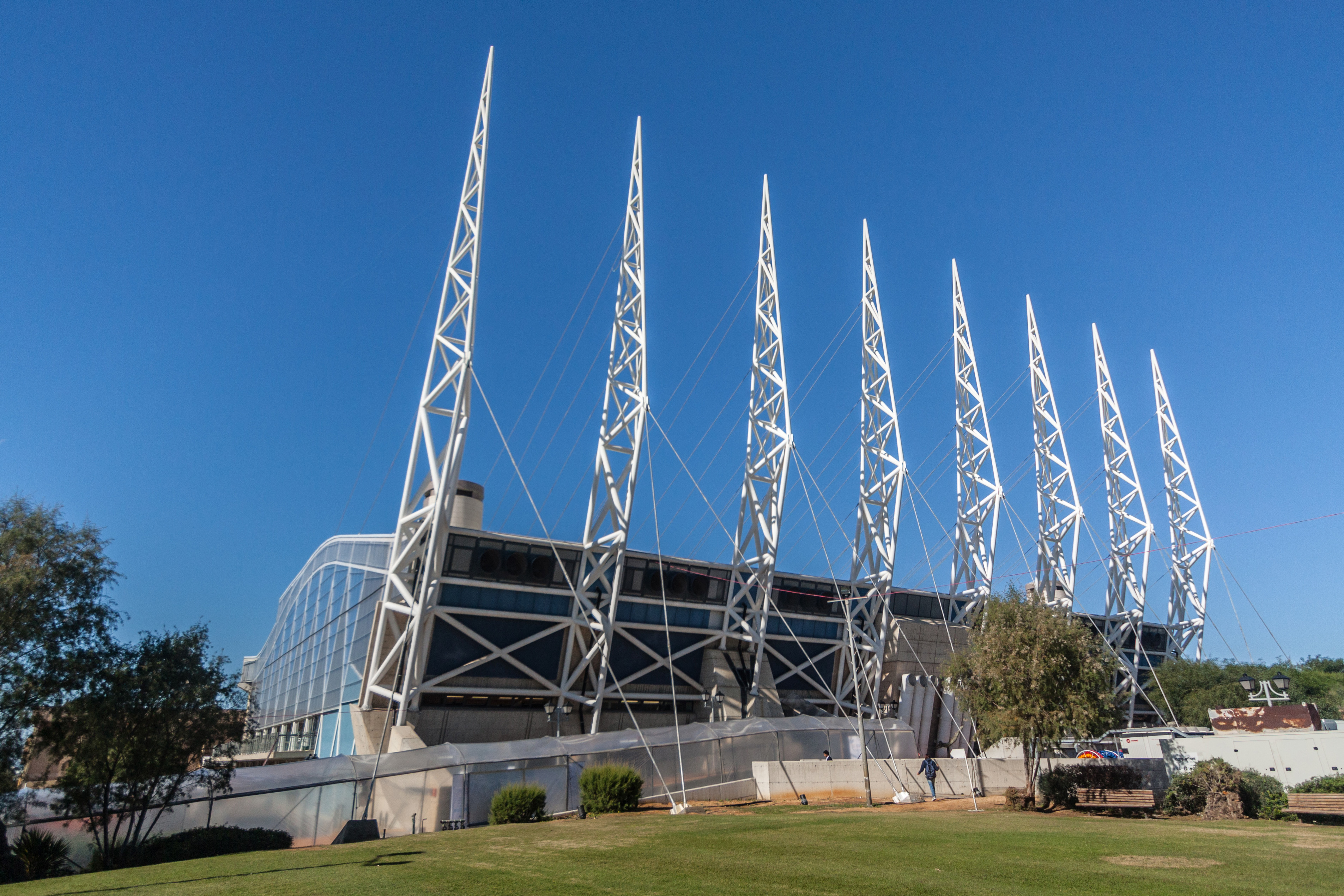 Olympic Swimming Pool in Wingate Institute